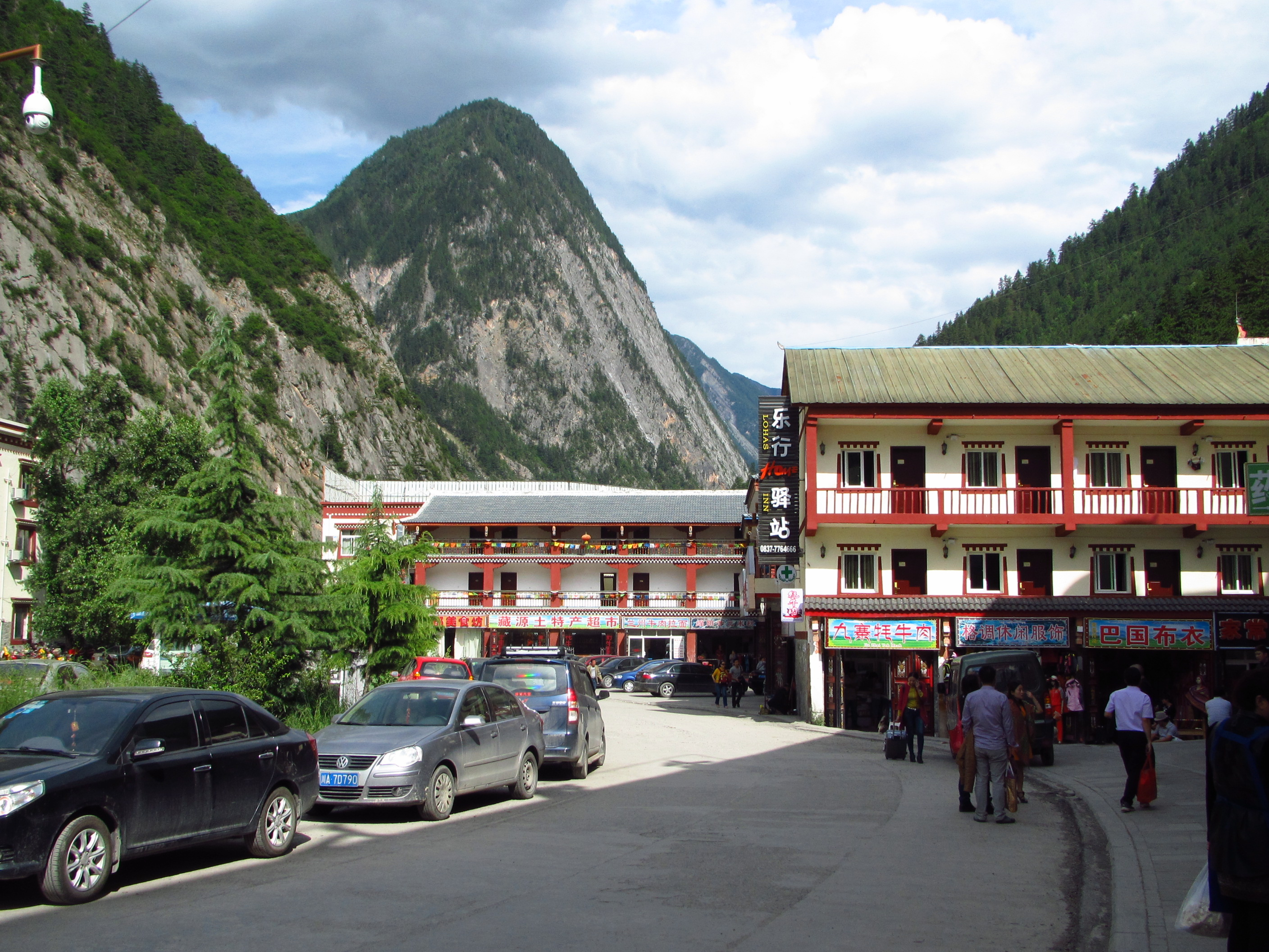 Pengfeng Village, Zhangzha Town, Jiuzhaigou County, Sichuan